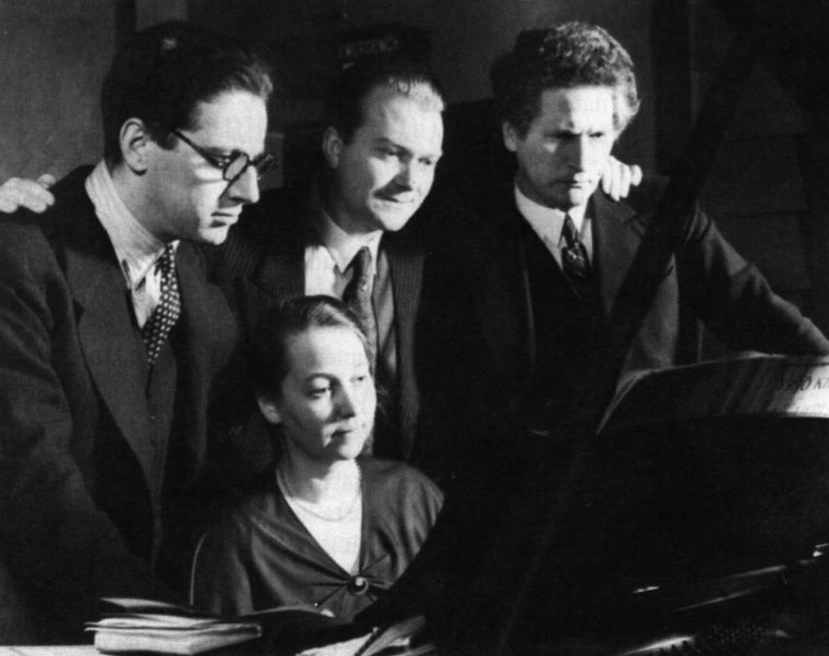 Photograph of a 1935 recording session of music by the Finnish composer Yrjö Kilpinen (1892–1959). At the piano, Mrs. Margaret Kilpinen (1896–1965); behind her, from left to right, producer Walter Legge (1906–1979), singer Gerhard Hüsch (1901–1984), composer Yrjö Kilpinen.